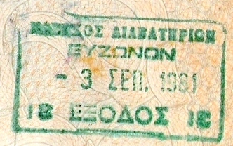 Pre-Schengen Greek passport stamp for Evzoni border checkpoint. Derived from File:Passportstempel.jpg